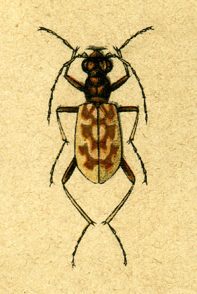 An adult of tiger beetle Chaetodera laetescripta. Illustration from the monograph by Georgiy Jacobson “Beetles Russia and the Western Europe” (1905).